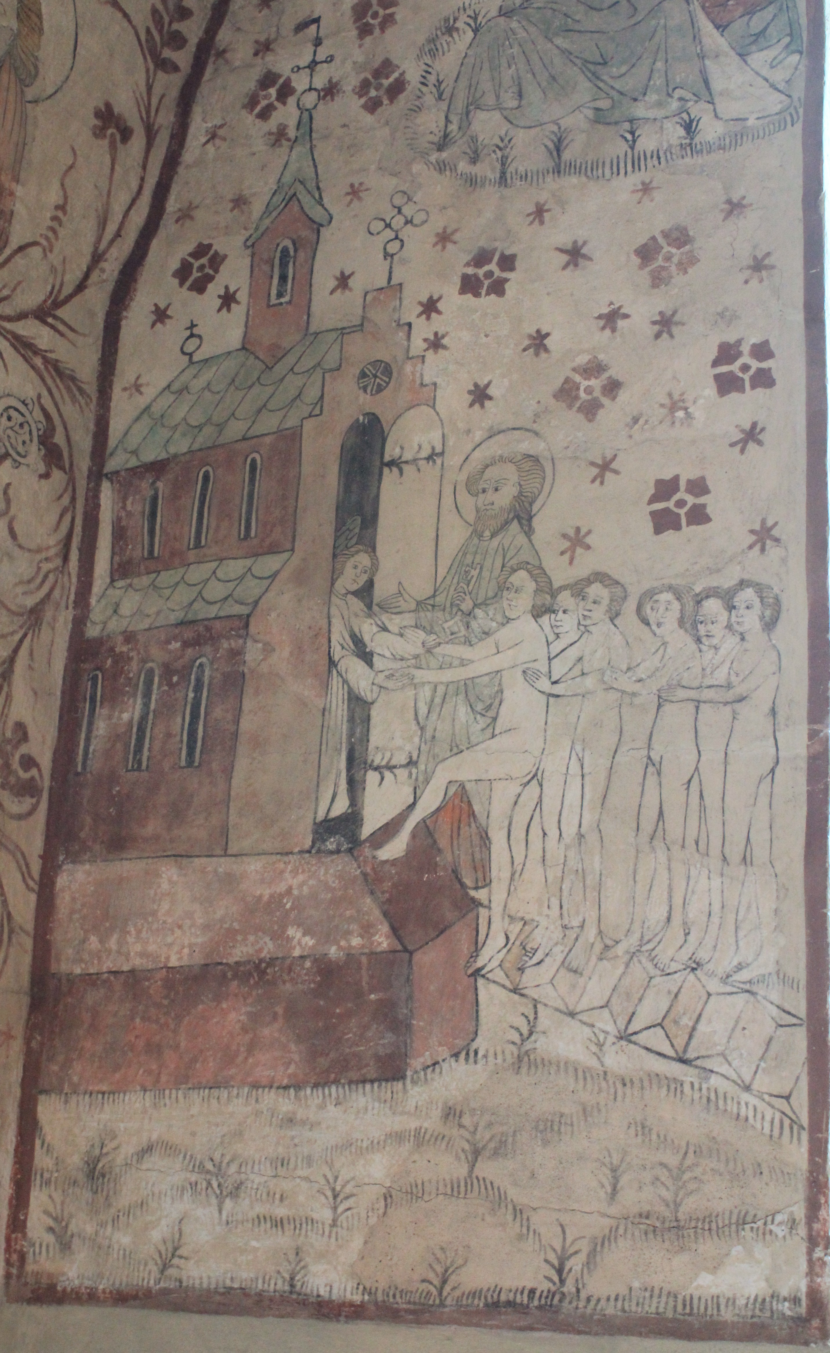 Mediaeval painting of the gate to heaven, Heliga trefaldighets kyrka in Arboga, Sweden.